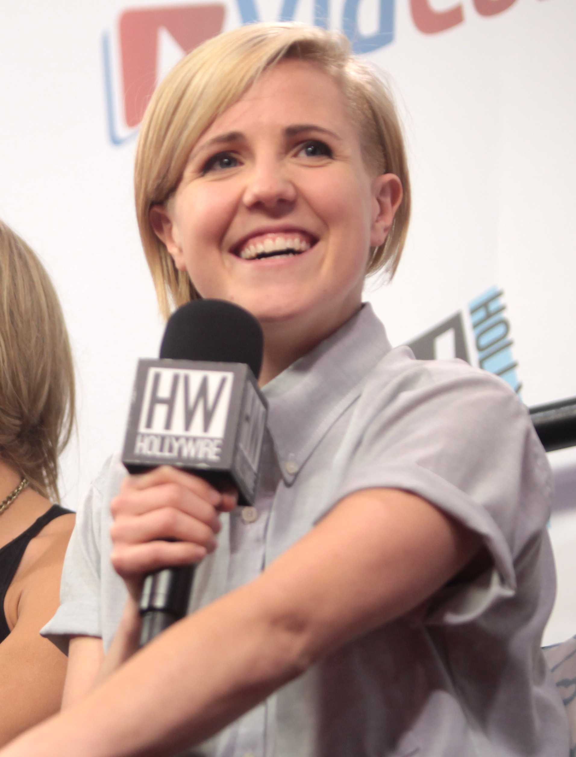 Hannah Hart speaking at the 2014 VidCon on June 28, 2014.